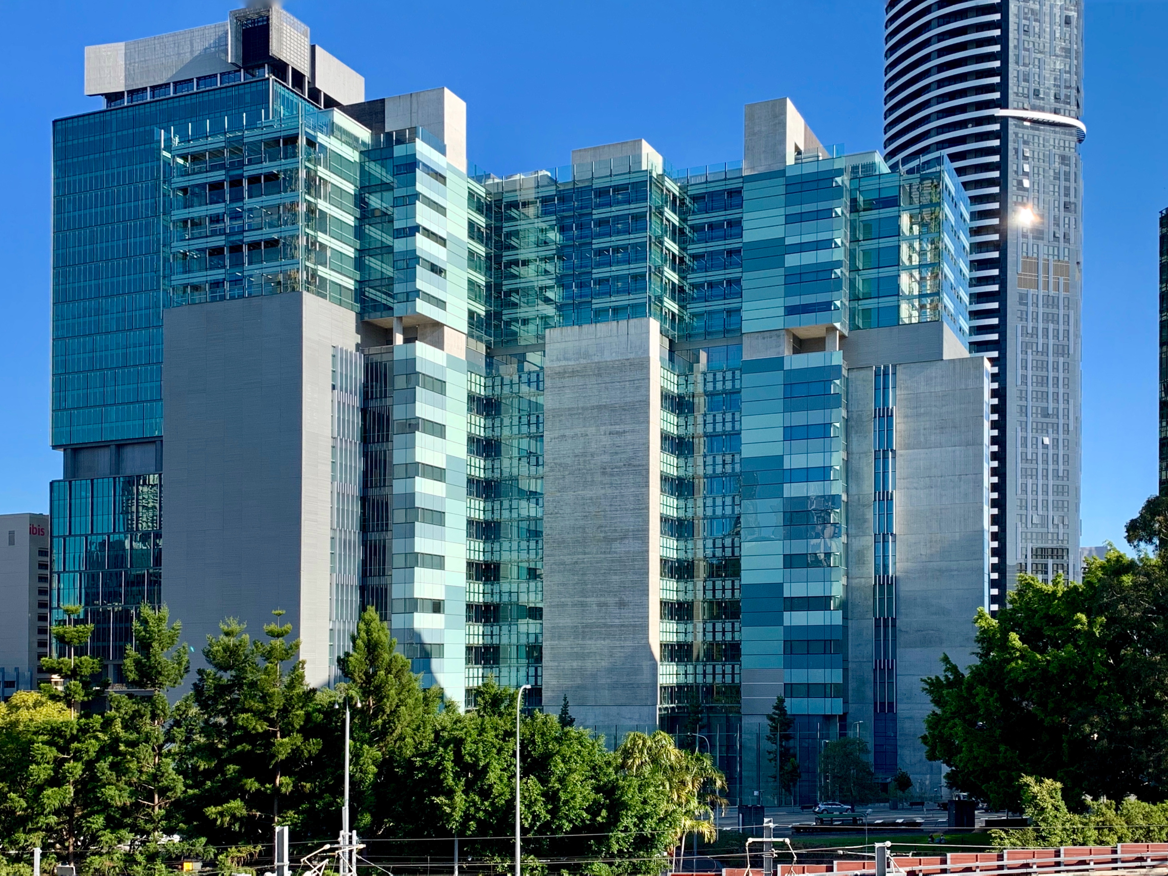 Queen Elizabeth II Courts of Law seen from Albert Street, Brisbane, Queensland